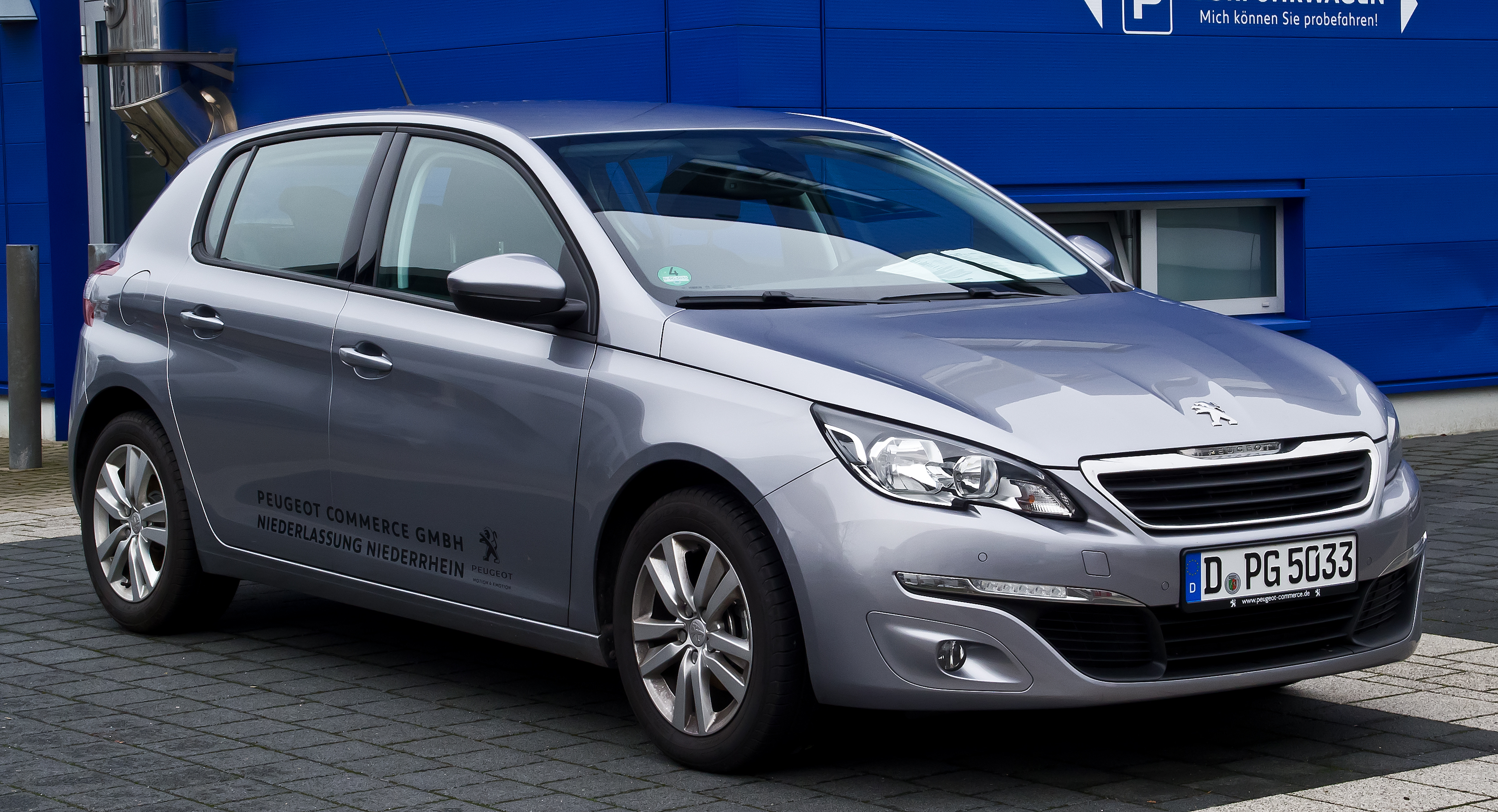 Peugeot 308 82 VTi Active (II)